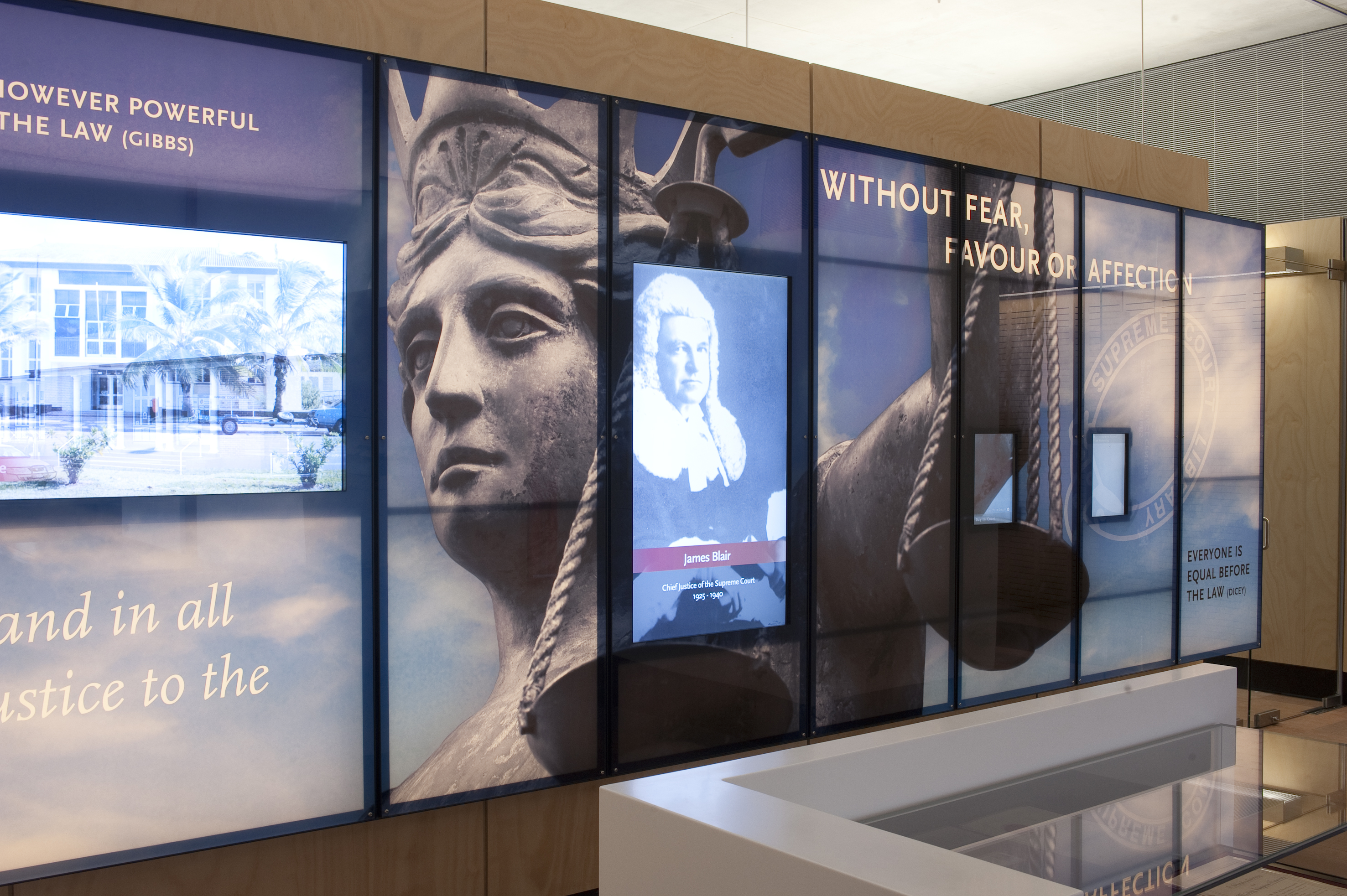 Matrix Wall in the Sir Harry Gibbs Legal Heritage Centre, located in the foyer of the Queen Elizabeth II Courts of Law, Brisbane, Australia.